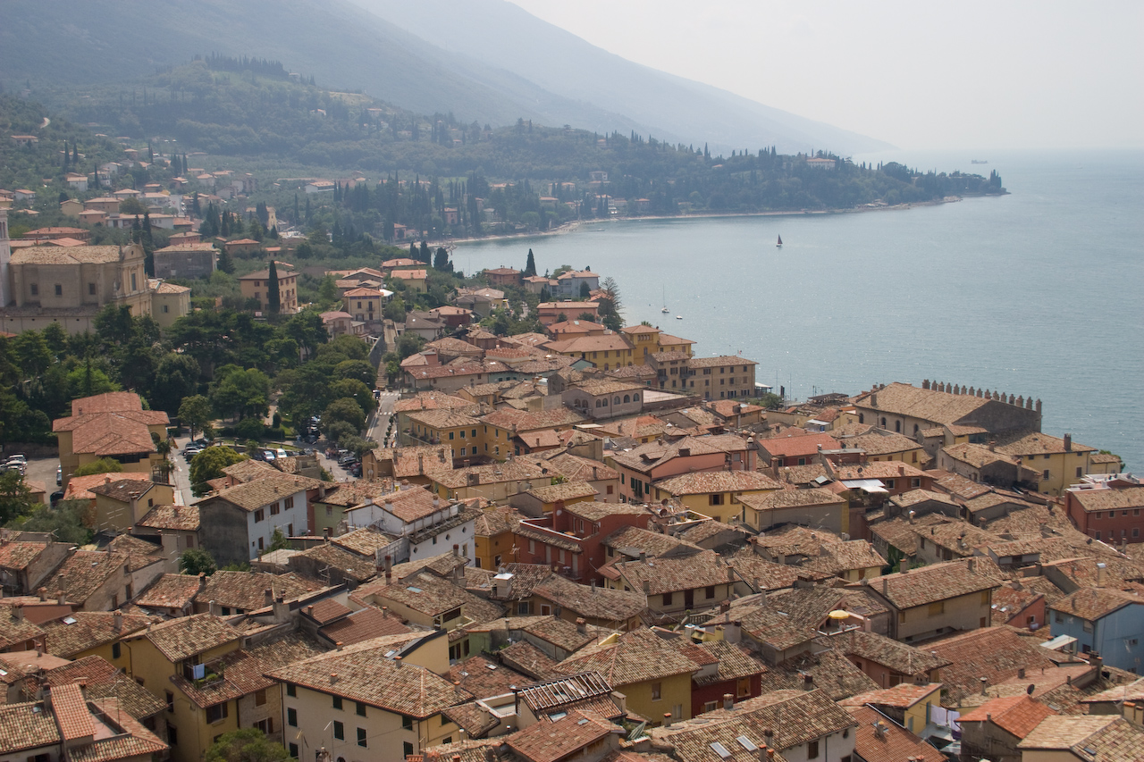 The oldtown of Malcesine as seen from the Scaliger castle.